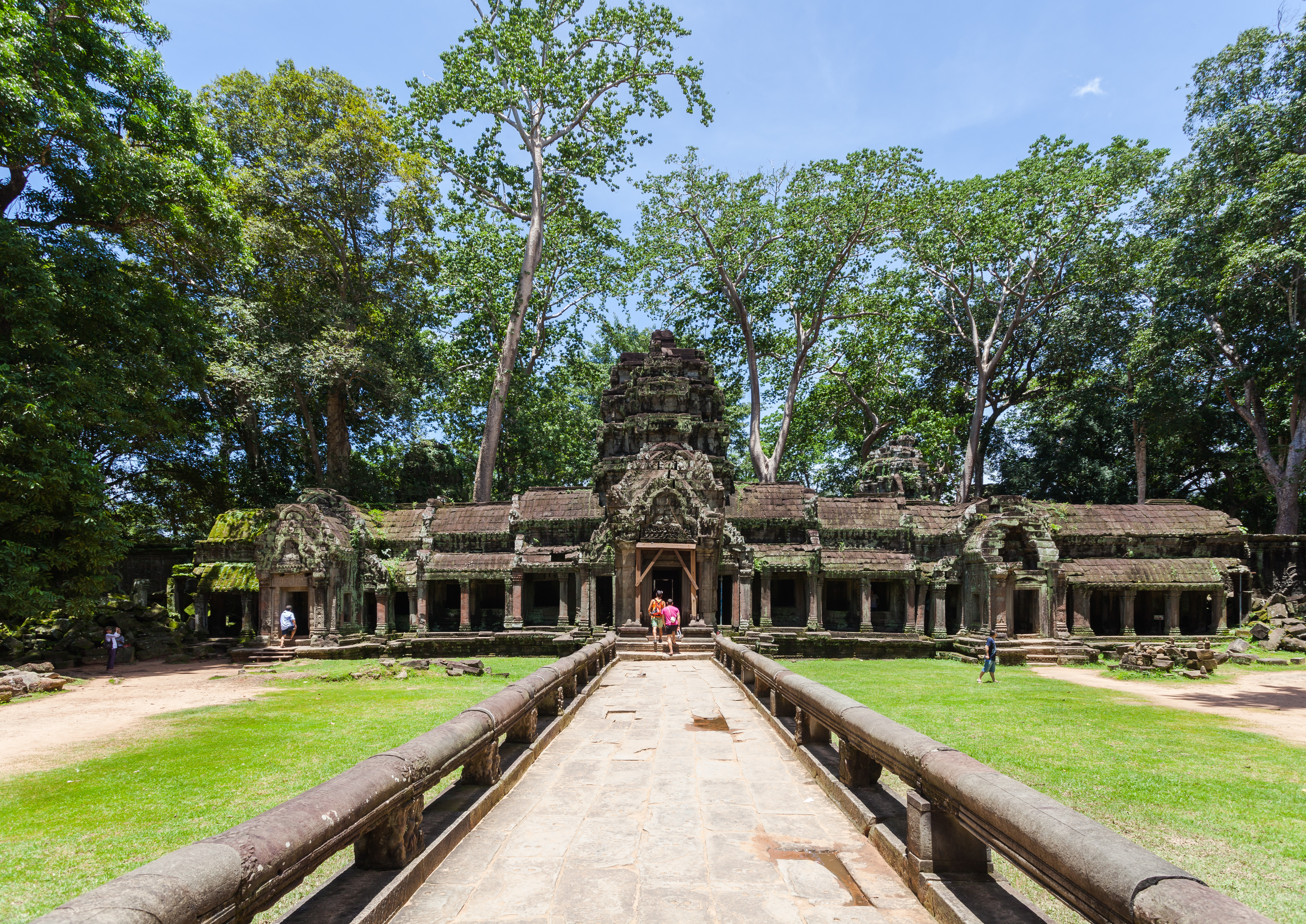 Ta Phrom, Angkor, Cambodia